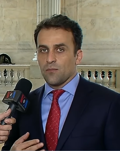 Amir-Abbas Fakhravar in an interview with VOA